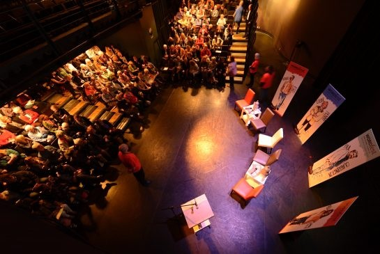 Picture from Wordfest on an Aaron Chatha article for Metro News.